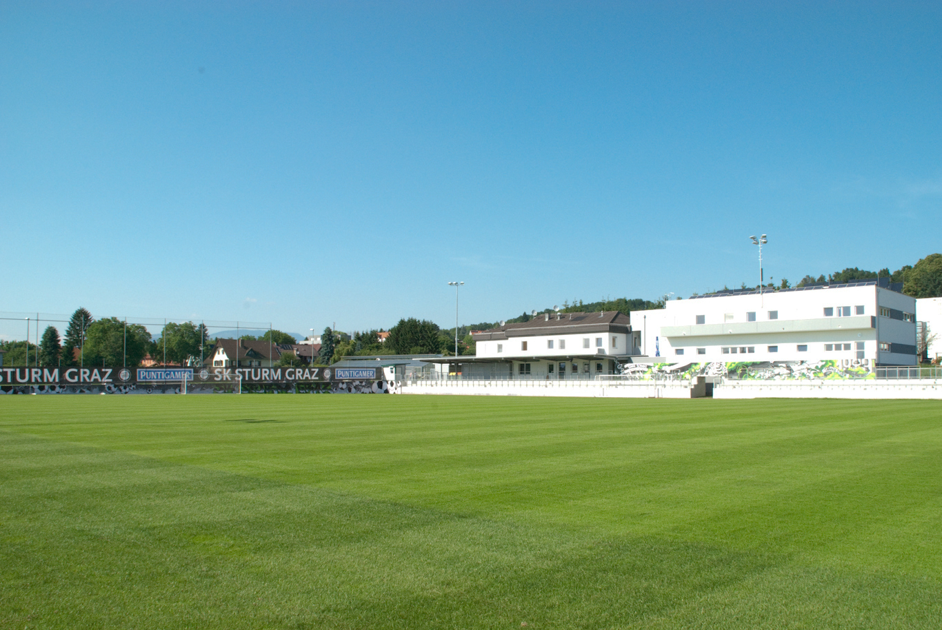 The sportcenter Messendorf of the SK Sturm Graz